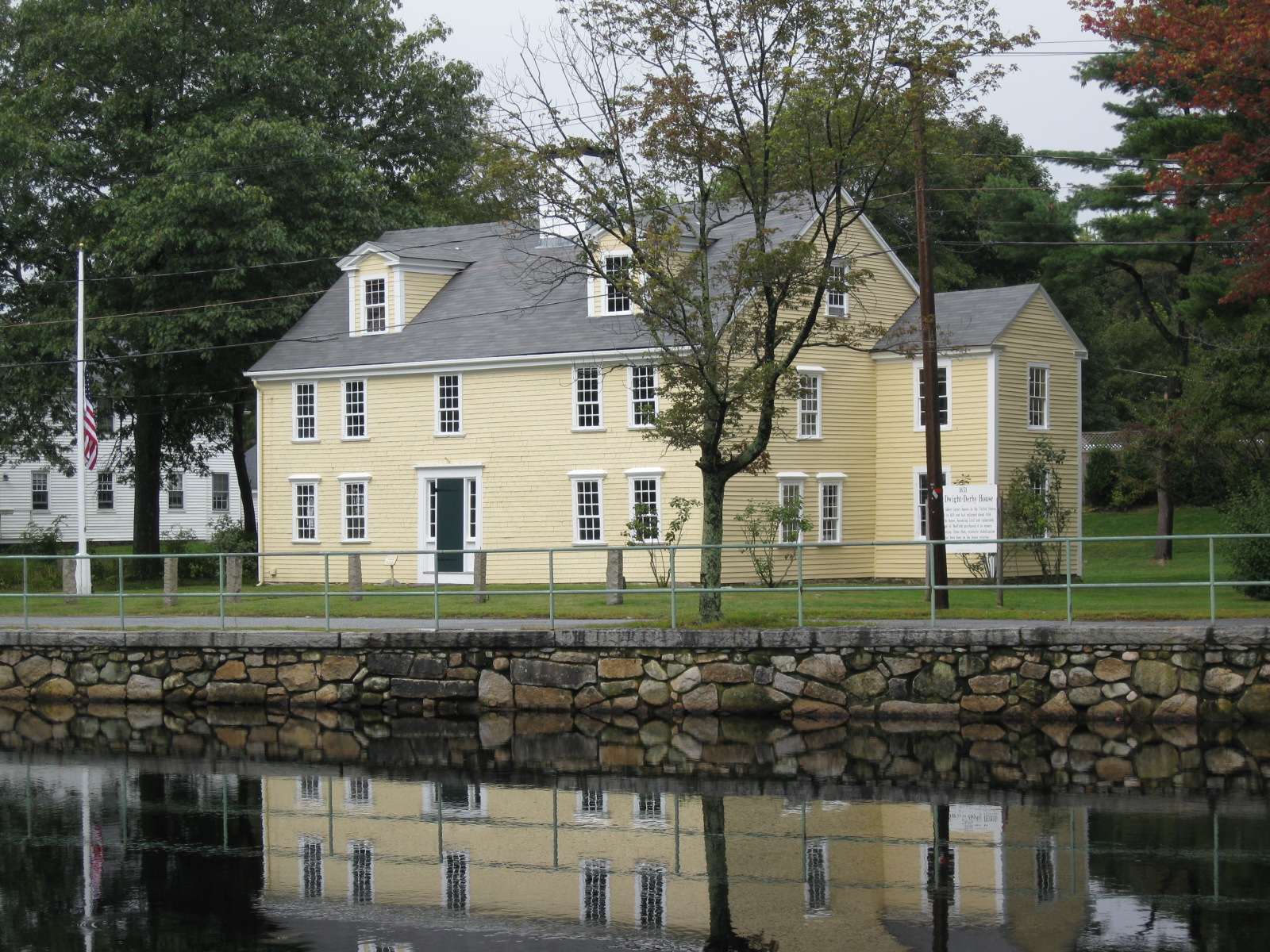 The Dwight-Derby House (1651) overlooking Meetinghouse Pond.